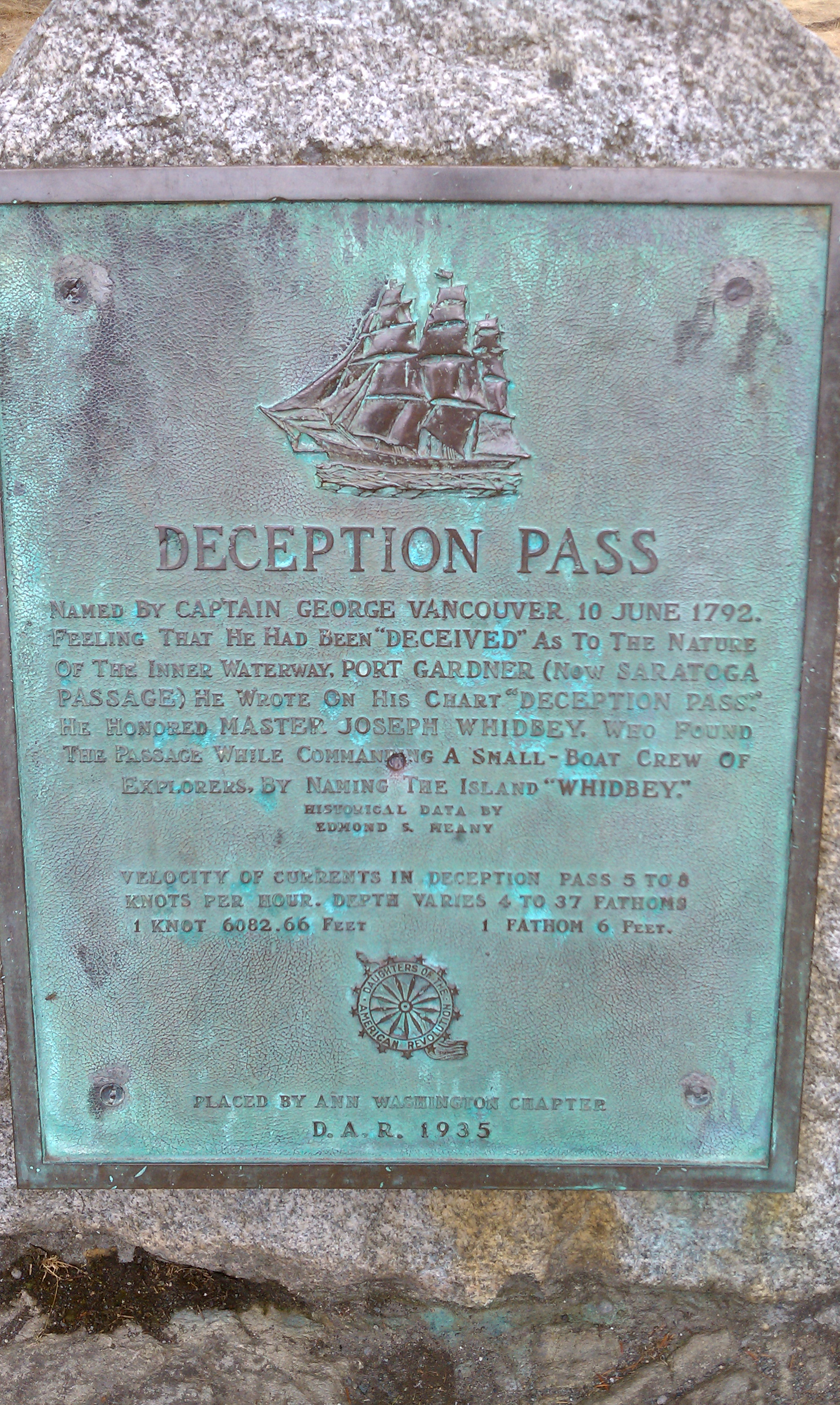 Historical marker honoring George Vancouver's travels in 1792, in Deception Pass State Park near Puget Sound, Washington state. George Vancouver gave it the name "Deception Pass" because it had misled him into thinking Whidbey Island was a peninsula. Taken on August 8th, 2010.